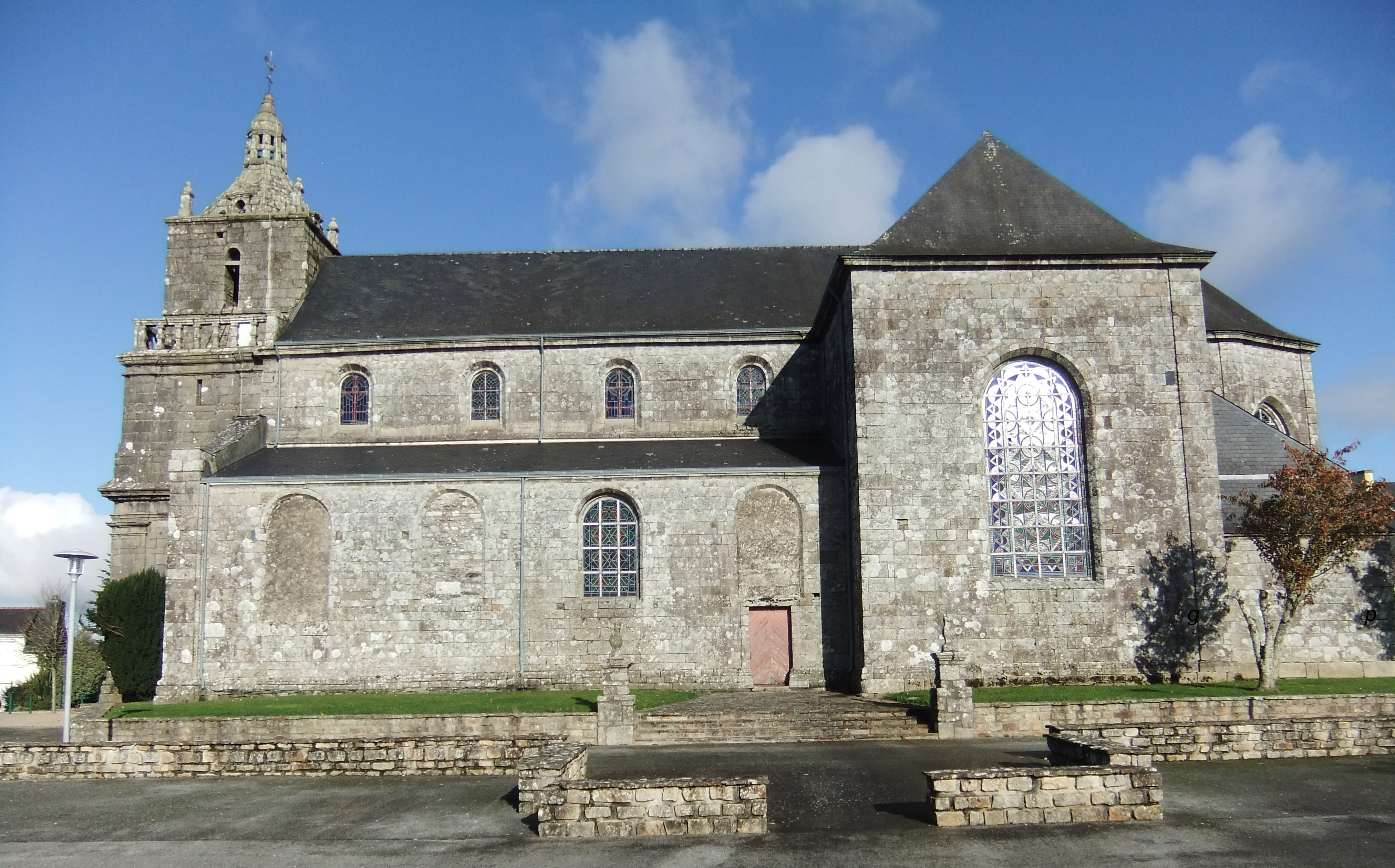 Laz church